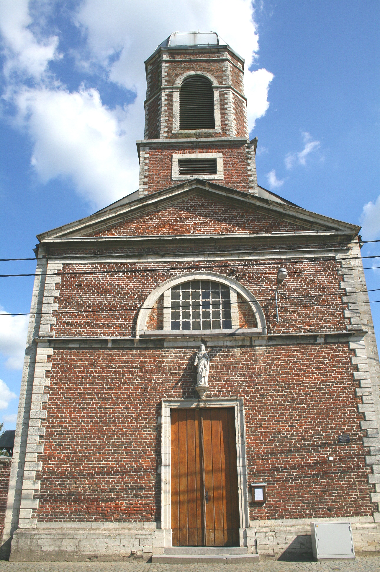 Opheylissem, the Saint Martin's church (1830). Walon: Opélissèm, l'èglîje Sint-Maurtin (1830).